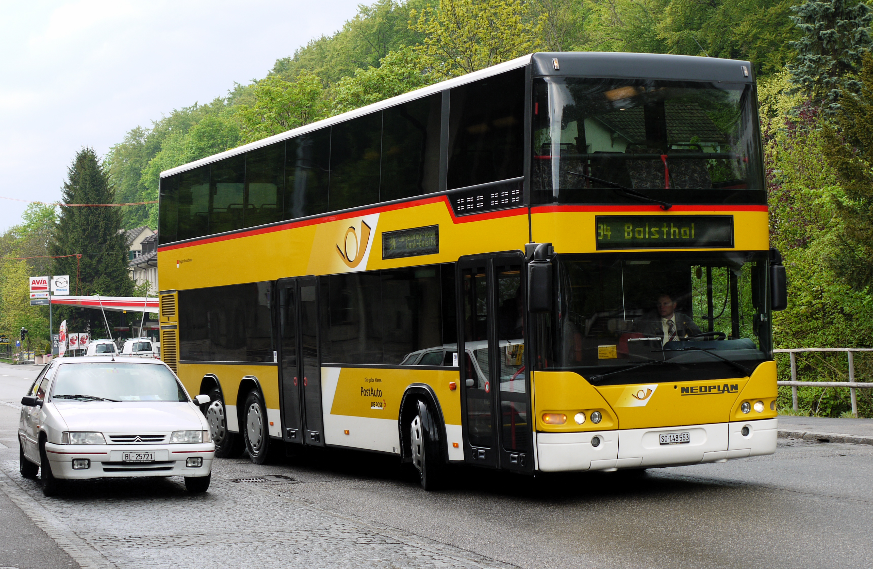 A Neoplan N 4426/3 double-decker bus operated by Postauto in Switzerland.